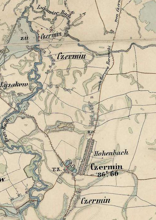 Czermin and Hohebach on an austrian map from around 1855